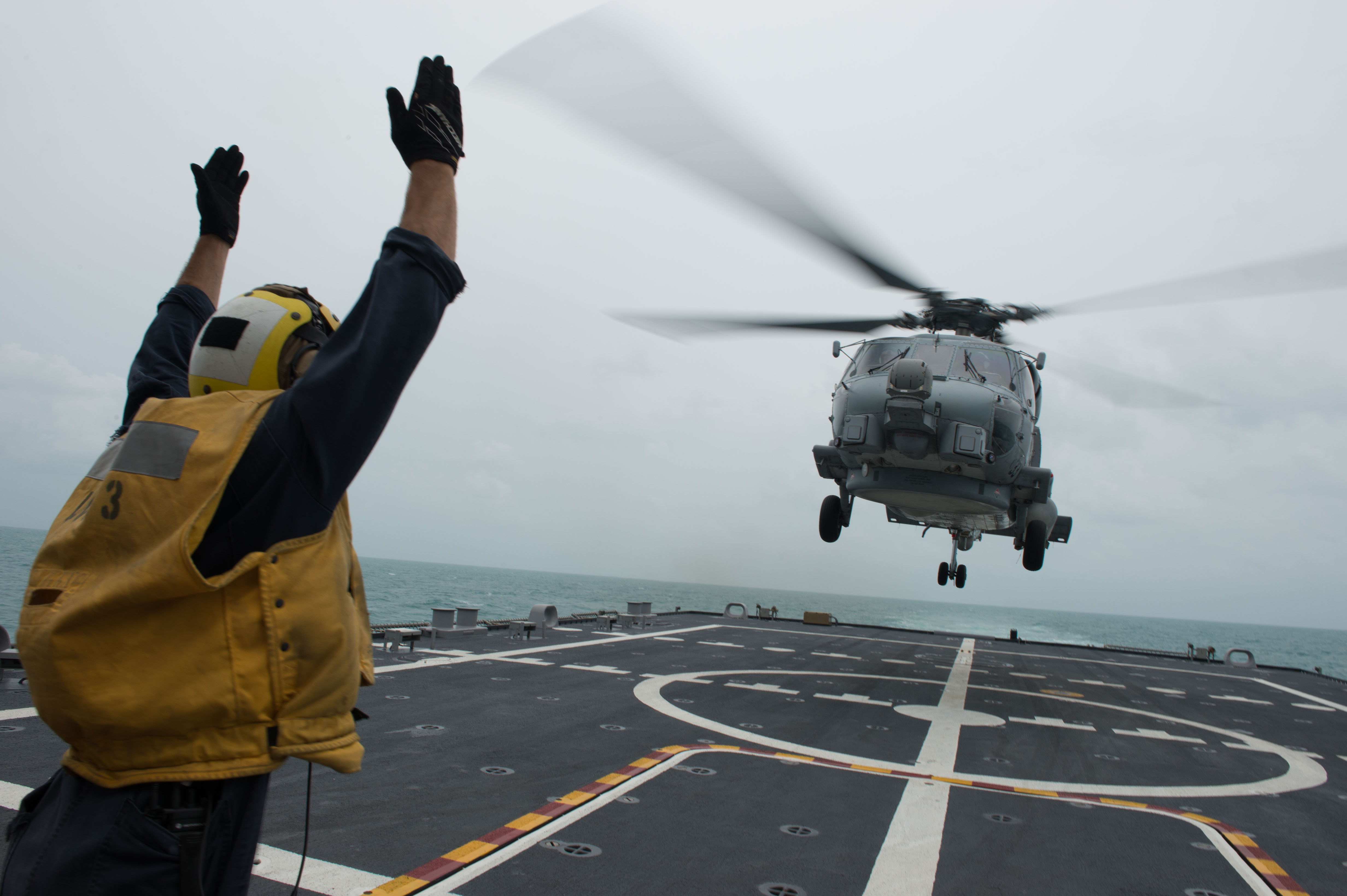 Boatswain’s Mate 2nd Class Adam Garnett signals an MH-60R Seahawk helicopter from Helicopter Maritime Strike Squadron (HSM) 35 on the flight deck of the littoral combat ship USS Fort Worth (LCS 3). Fort Worth is currently on station conducting helicopter search and recovery operations as part of the Indonesian-led efforts to locate missing AirAsia Flight QZ8501. (U.S. Navy photo by Mass Communication Specialist 2nd Class Antonio P. Turretto Ramos)